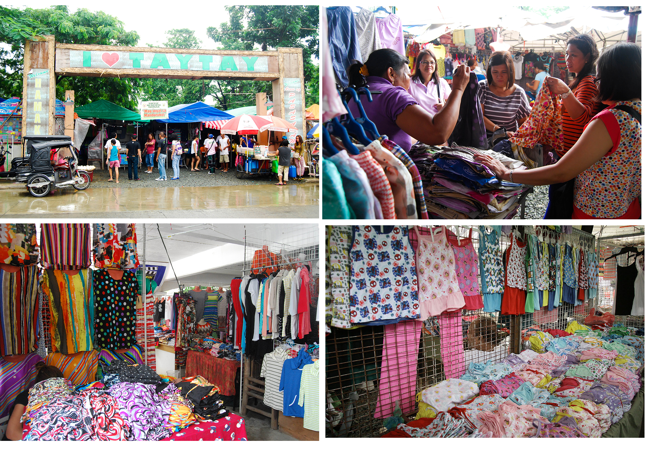 Taytay Wholesalers' Tiangge takes place every Tuesday and Friday beside Taytay New Market, 500 meters from SM Taytay